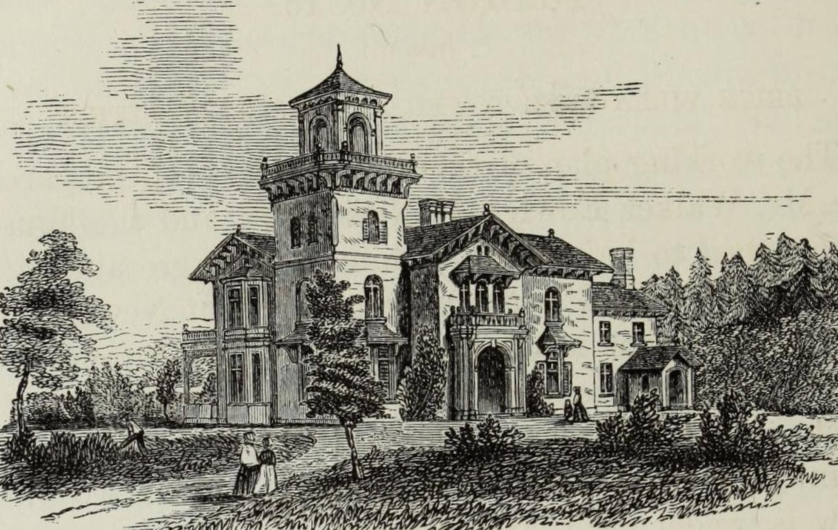 A Calvert Vaux design (No. 15) from Villas and Cottages, planned for lawyer James Walker Fowler of Newburgh but never built. No. 15 is correct.